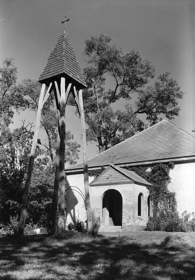 Broad Creek Church, Prince Georges County, Maryland, USA